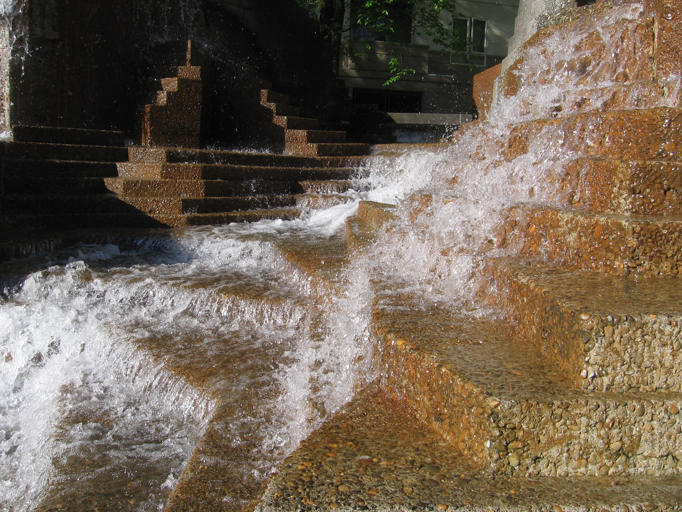 Lovejoy Fountain, named after pioneer Asa Lovejoy, in downtown Portland, Oregon.